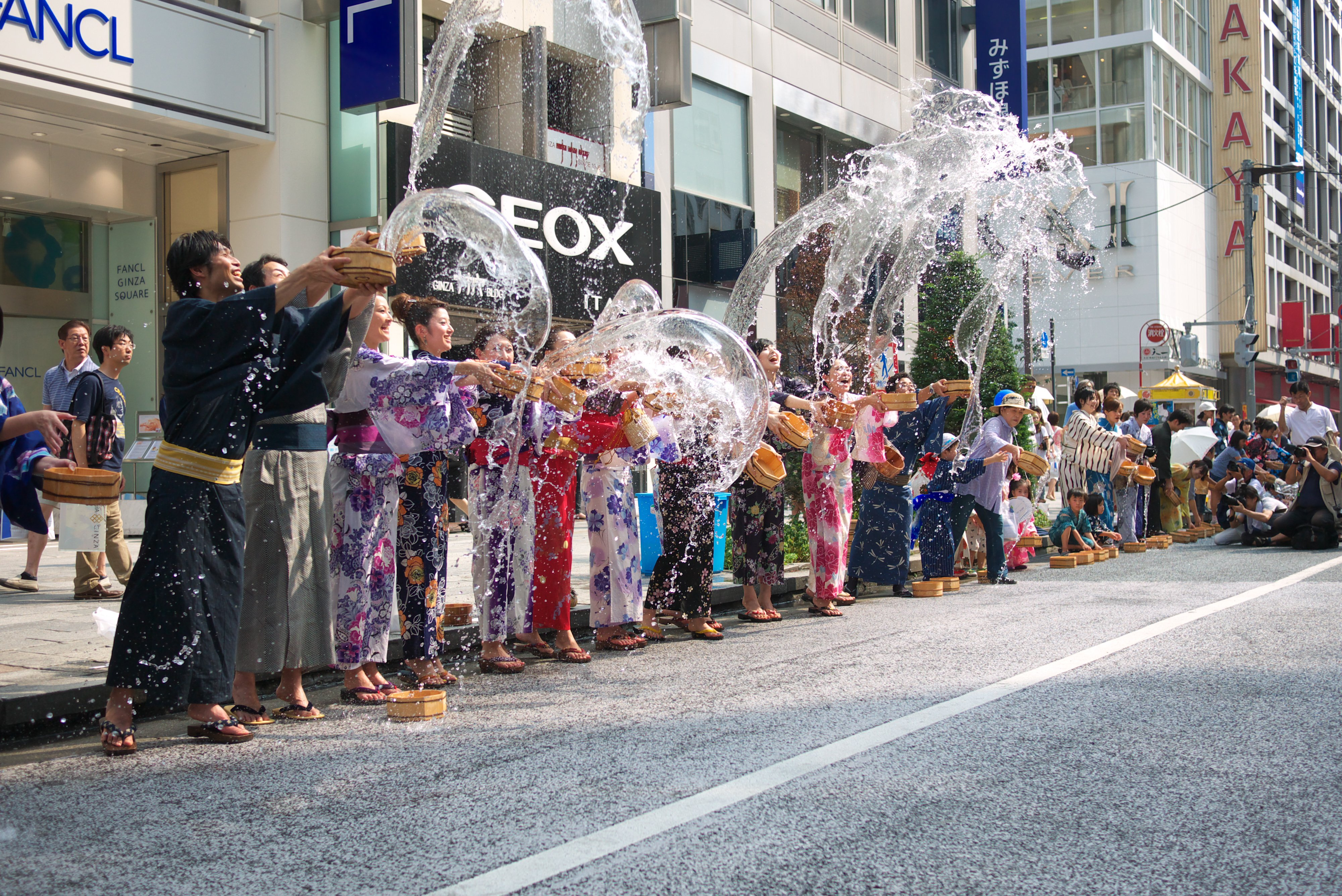 Uchimizu at Ginza,Tokyo,Japan.